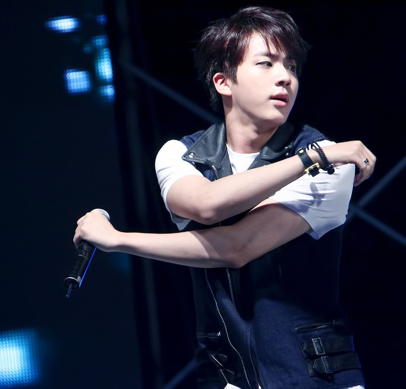 Jin performing at Baeg-Unjae, 28 September 2014